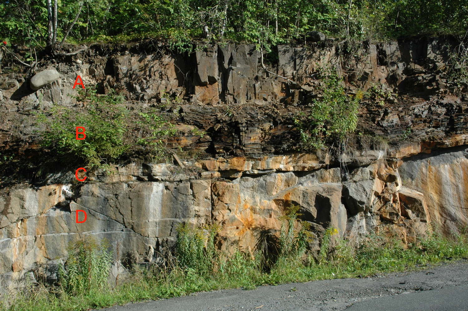 Roadside in Slemmestad, Norway, shows the unconformable contact between basement and Lower Paleozoic sedimentary strata. A: Permian mænaitt intrusion B: Middle Cambrian Alum Shale C: Fossiliferous middle Cambrian Limestone D: Precambrian basement with a thin layer of Cambrian conglomerate on top. Source for geological interpretation: Jan Ove R. Ebbestad og Elisabeth Sunding: Ekskursjonsguide 1 - Slemmestad. Slemmestad, 2000.